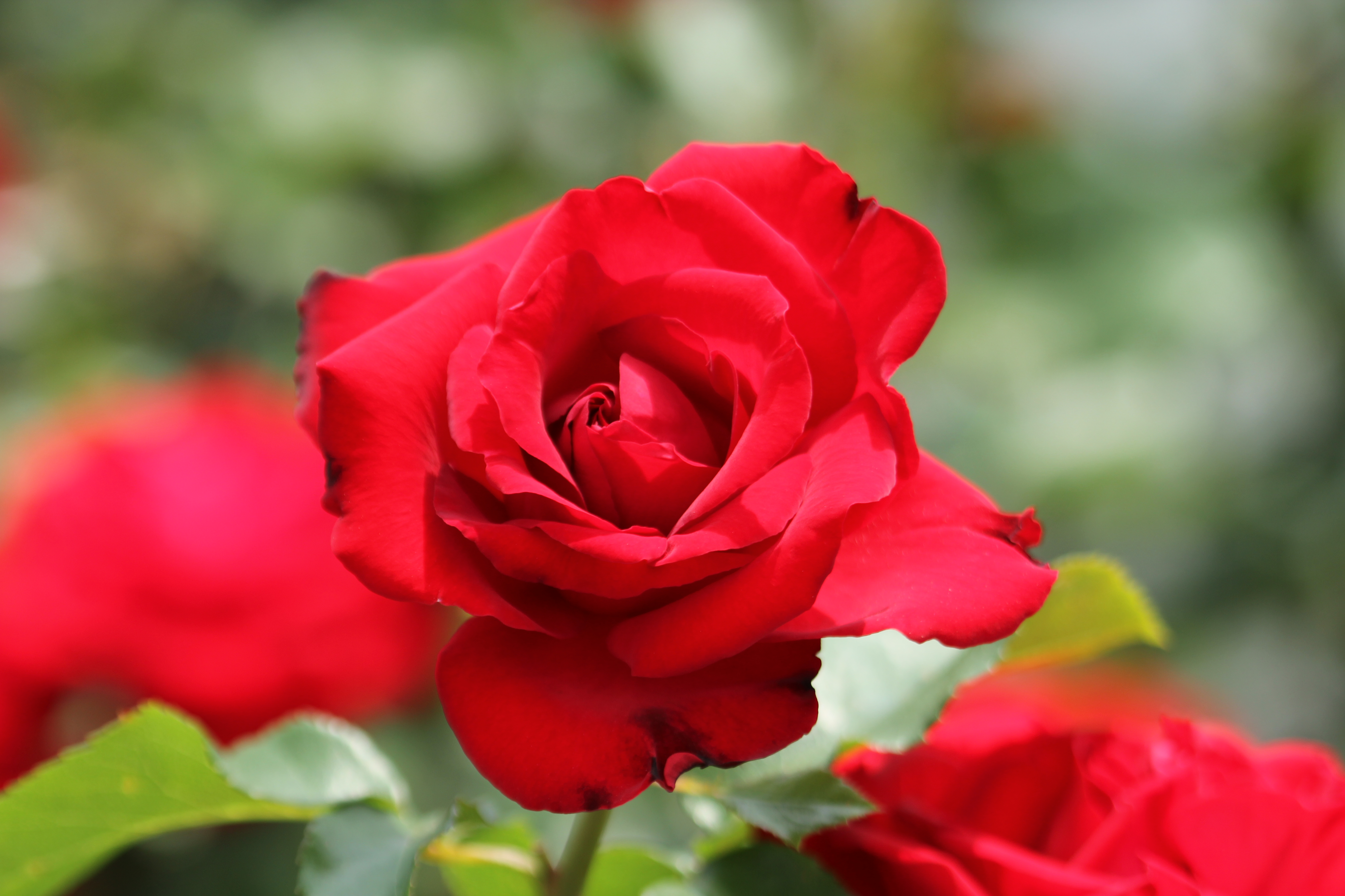 Sultan qaboos, rose